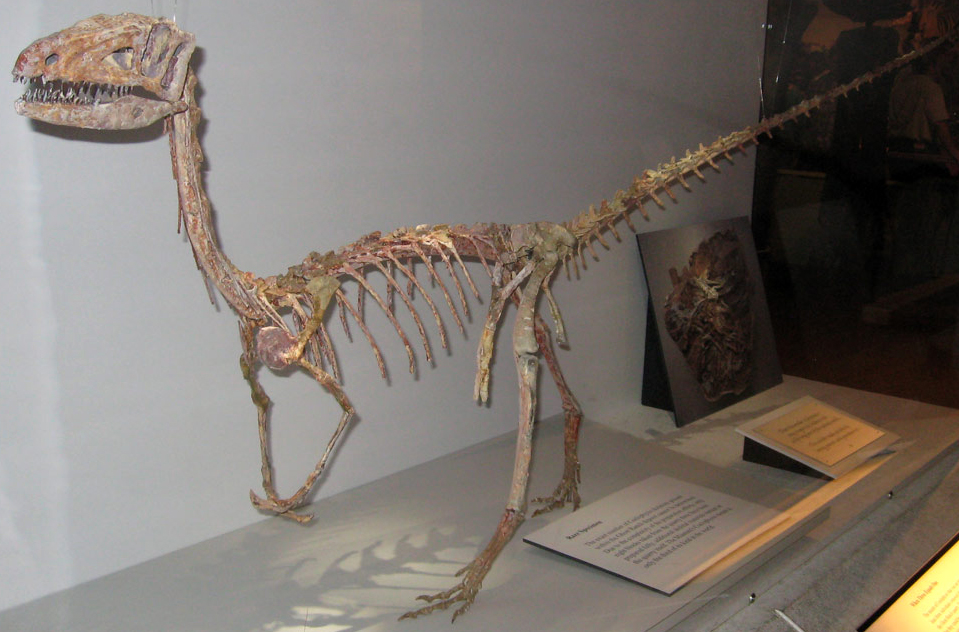 At the Cleveland Museum of Natural History